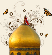 On the 11th of Muharram, 1408 A.H., (5th September, 1987 CE), Sheikh Al-Karbassi began work on the Hussaini Encyclopedia. The encyclopedia is completely themed on Imam Al-Hussain as a person, biography, thought and way of conduct, as well as on the social circle of personalities around him and also of places, chronicles and various other related subjects. His inspiration to start this work was by him who “does not speak out of his own fancy” (The Star 53-3 – i.e. Prophet Mohammed) when he declared: “Hussain is from me and I am from Hussain”. And this work has penetrated the barriers of time, place, language and identity in searching and conveying pieces of information related to the Cause of Imam Al-Hussain (PBUH). The Hussaini Encyclopedia covers many different aspects and things which are related to Imam Al-Hussain, these include: Al-Hussain in the Quran, The Hussaini Biography, Al-Hussain and Legislation, The Dream, Visions and Interpretation, Glossary of Al-Hussain’s Partisans, Glossary of Hashemite Partisans of Al-Hussain, Historical Investigations in the Hussaini uprising, Imam Al-Hussain’s Uprising – Emergence and Confirmation of History, Al-Hussain’s Life Story, History of the Shrines, ‘Ziyara’ (holy ‘visits’ to and prayers) at Al-Hussaini Shrines, Anthology of the First to Fifteenth Hijra Century poetry, Persian, Urdu, Turkish, English, Albanian, Oriental and Occidental Poetry. The Hussain Encyclopedia is in Arabic but some parts have been translated into different languages such as: English, Persian and Urdu. It now consists of over 600 volumes and will over 95 million words. It is expected to reach over 700 volumes. This is in principle individual work; however the author has had assistance from people such as researchers, poets, men-of-letters and journalists. To avoid misunderstanding, the title of the Encyclopedia has been registered in the international languages.